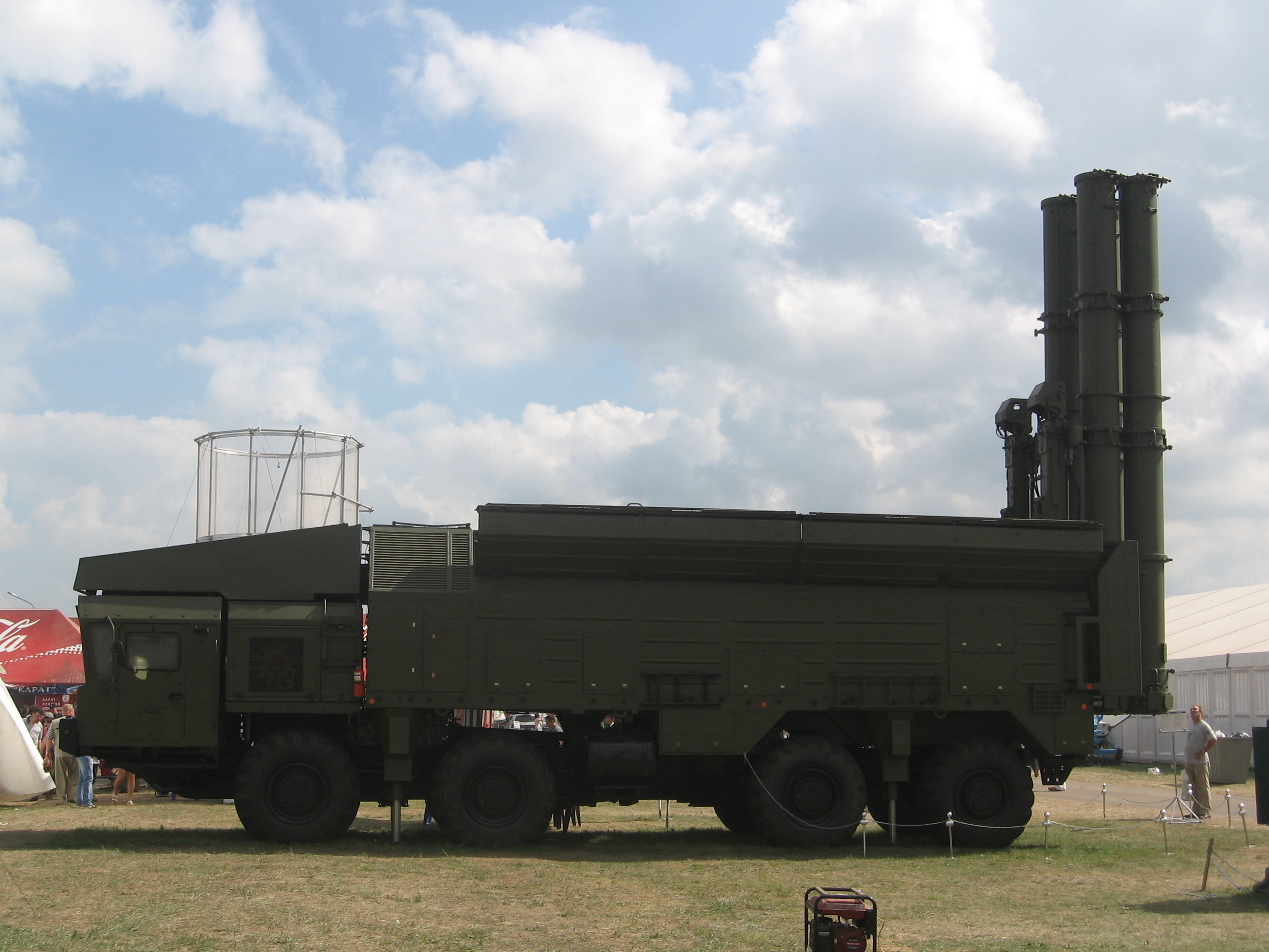 Club-M at MAKS-2007